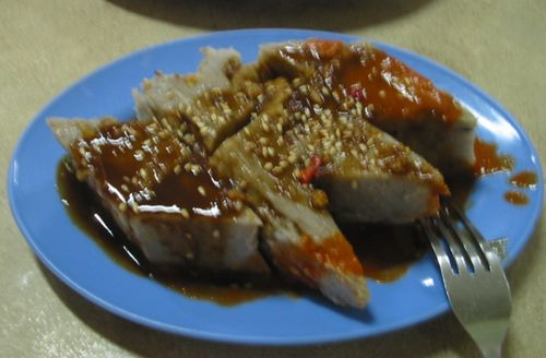 Picture of Yam Cake of Malaysia YamCake001.jpg